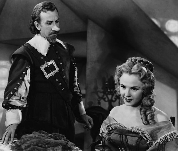 José Ferrer & Mala Powers in Cyrano de Bergerac - cropped screenshot